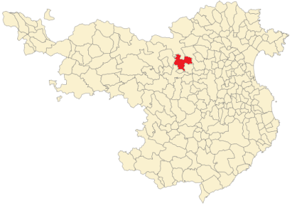 Beuda